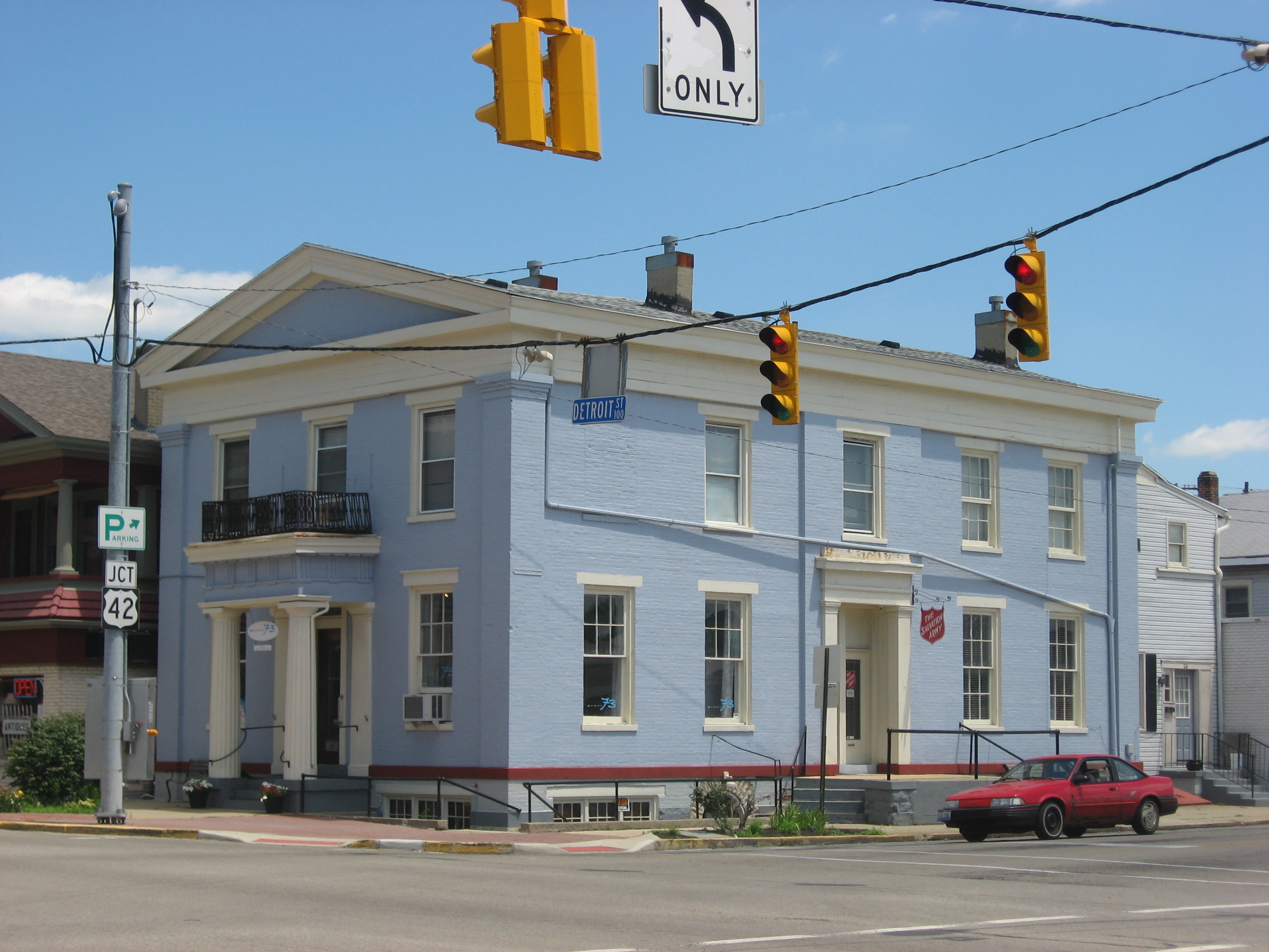 Front and southern side of the Bank of Xenia, located on the northeastern corner of the intersection of Detroit (U.S. Route 68) and Second Streets in Xenia, Ohio, United States. Built in 1835 and since converted into a Salvation Army center, it is listed on the National Register of Historic Places.